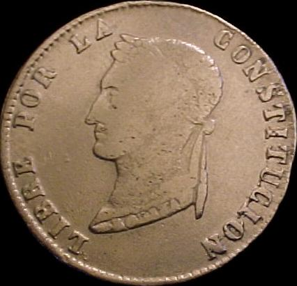 Bolivian 8 sol coin from 1853 - obverse